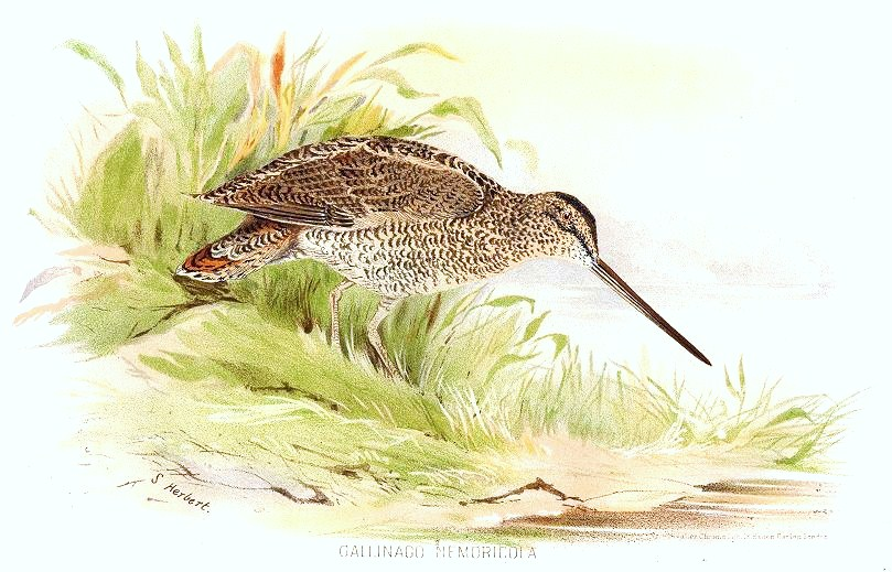 Gallinago nemoricola (Wood Snipe)